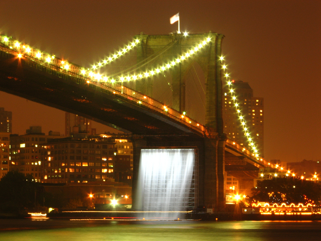 The Brooklyn Bridge. This waterfall is part of Olafur Eliasson's Waterfalls installation; there's also one at Governors Island, another at Pier 35 in Manhattan, and another between Piers 4 and 5 in Brooklyn. National Register Number Brooklyn Bridge: 66000523